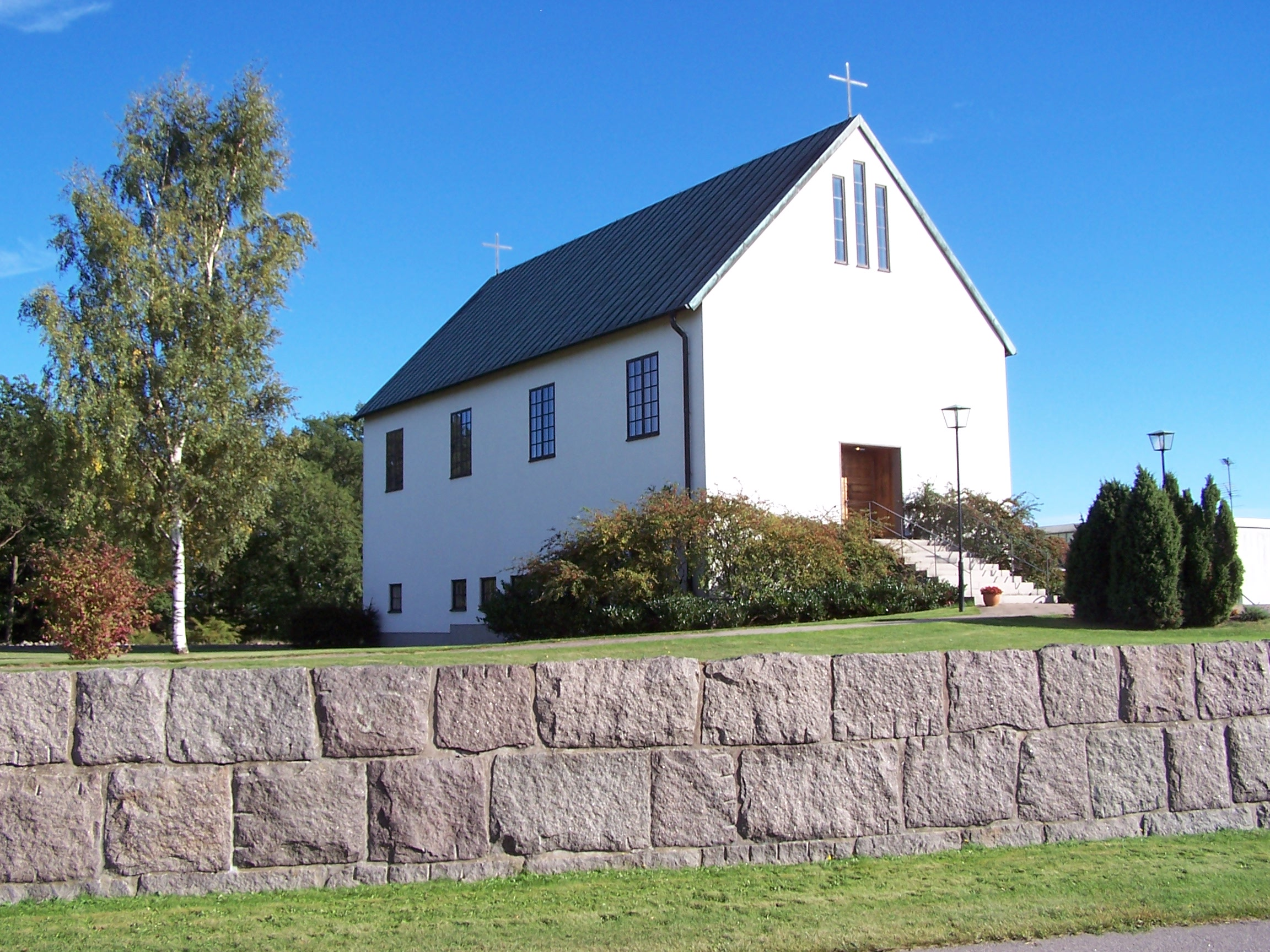 Bergkvara chapel, Sweden - Exterior